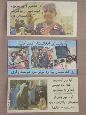 Propaganda leaflets air-dropped by American forces over Afghanistan during the war. Translated from Pashto: Top image: Children need a Peaceful, Hopeful and Happy life. Middle image: Help us in making Afghanistan happy again (rebuilding). Bottom: Whether you want a life like this for your women and children.